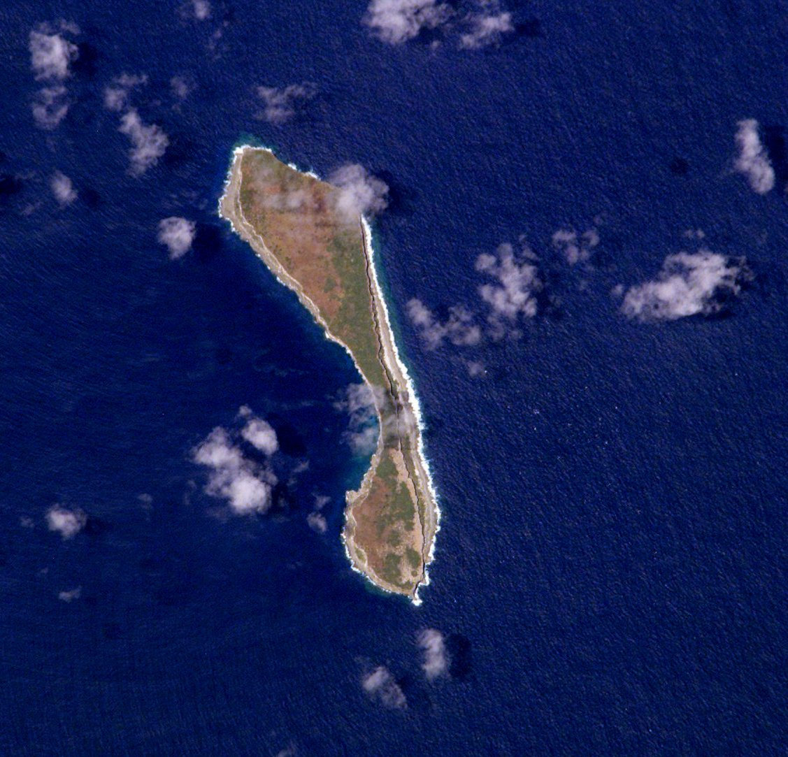 Walpole Island, reefs. Photographed from the International Space Station.